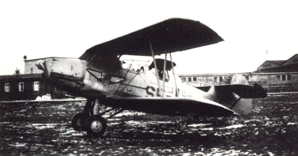 This image is from the Encyclopedia of Aviation - A collection and has been released for public use. The original image is found on:[ ency_a/a.html]